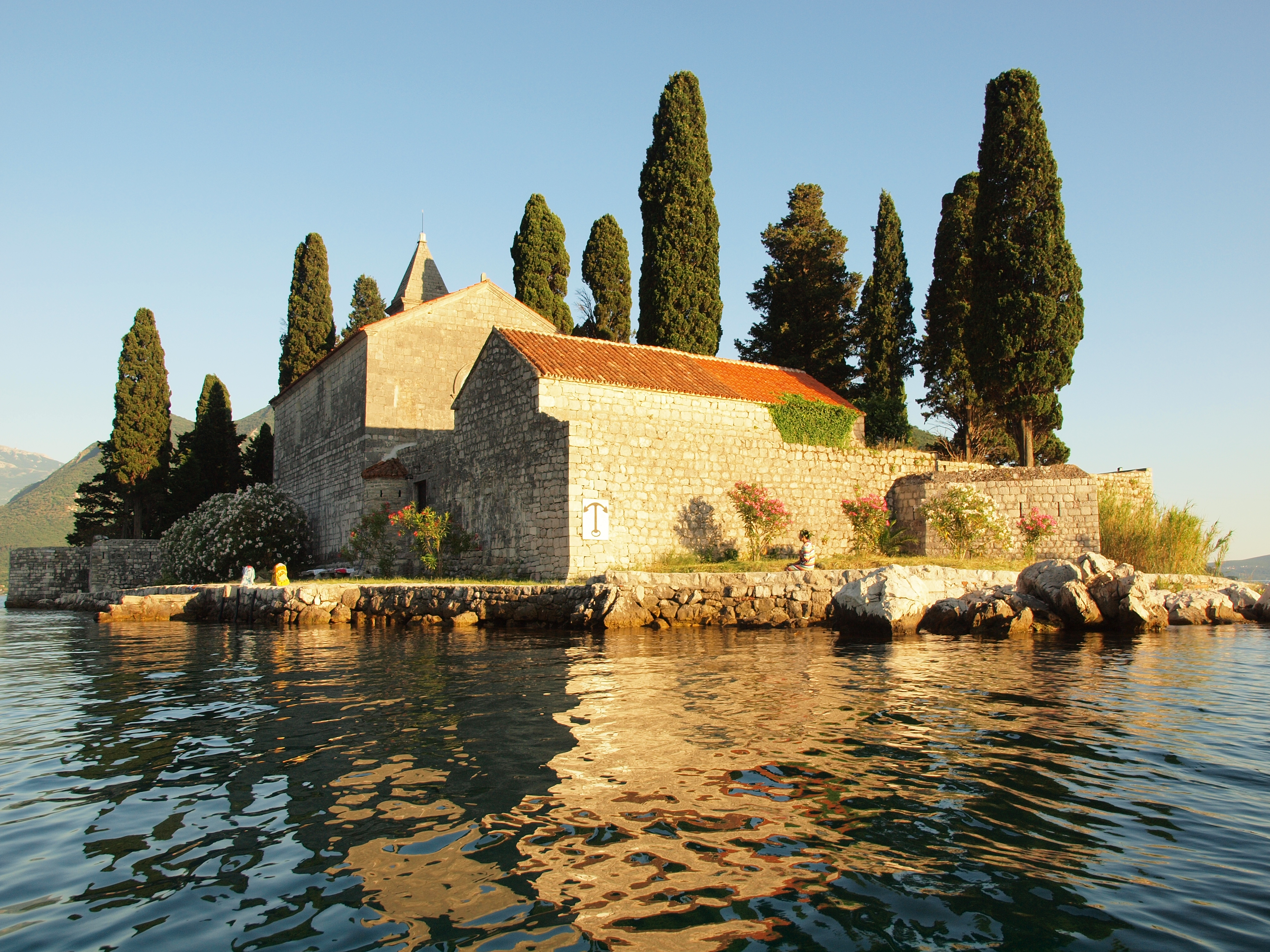 Sveti Đorđe, Bay of Kotor